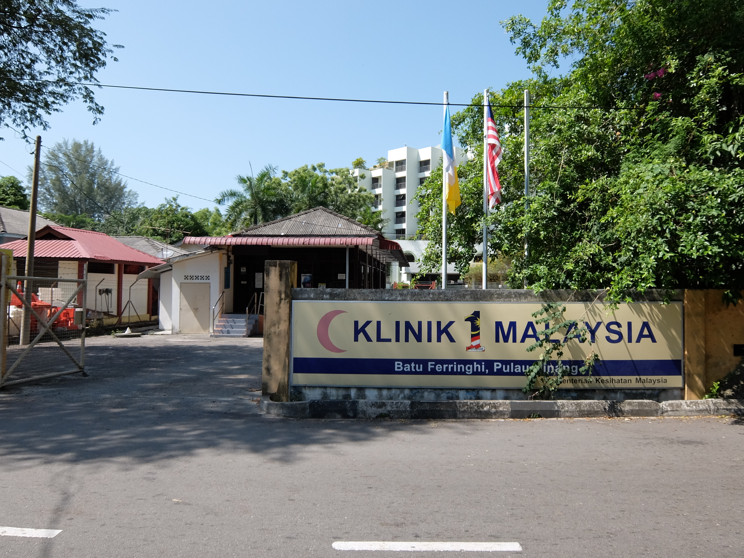 Batu Ferringhi Clinic, Batu Ferringhi, Northwest Island, Penang, Malaysia